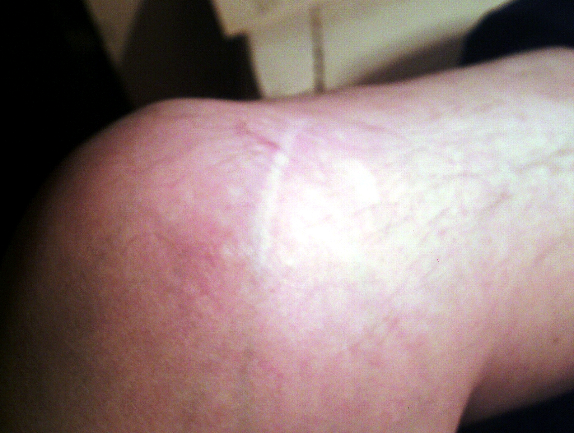 Scar from partial left menisectomy in 1980; more recent surgery is less invasive